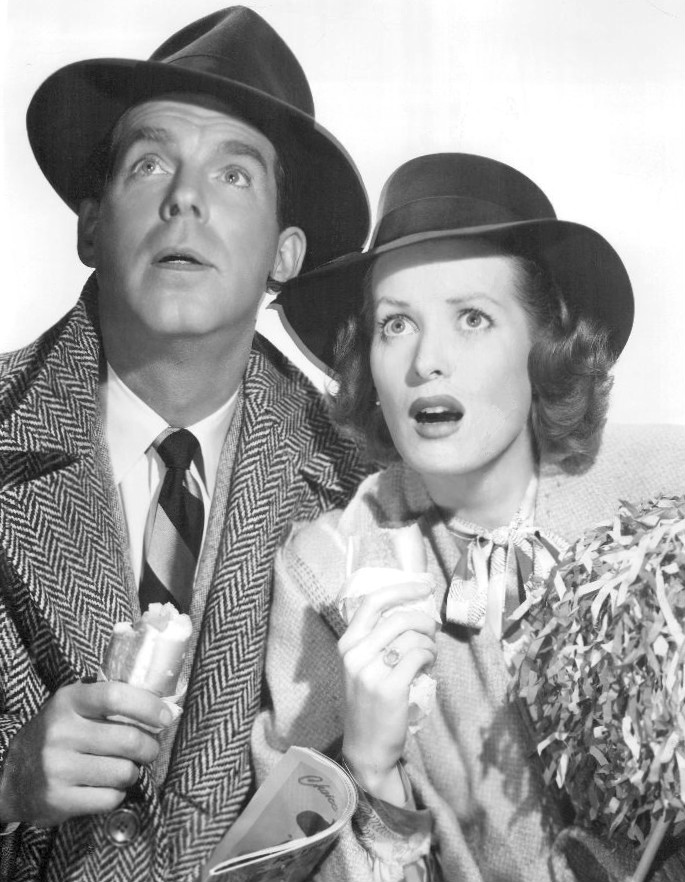 Photo of Fred MacMurray and Maureen O'Hara from the 1949 film Father Was a Fullback.